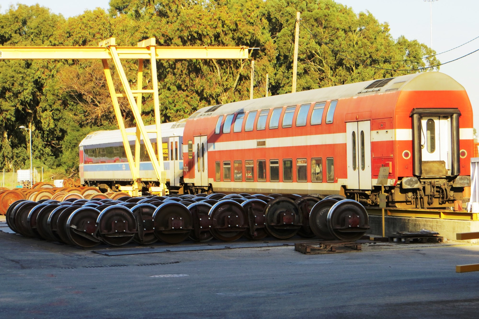 Transport in Israel